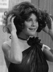 Publicity photo of (from left) Squire Fridell, Julie Cobb, and Tony Roberts in the premiere of Rosetti and Ryan.